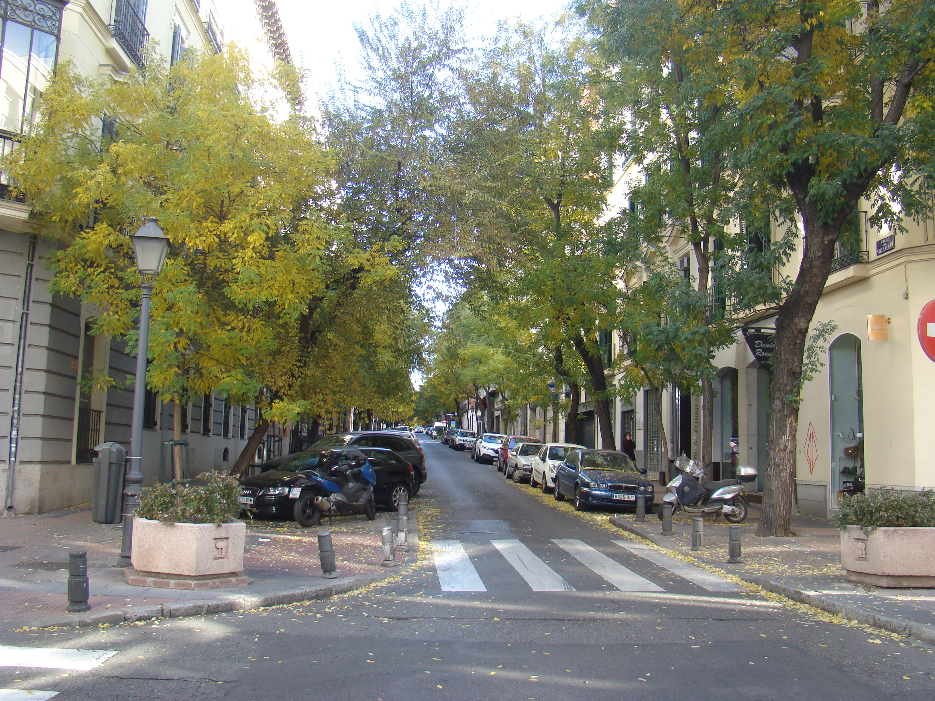 Madrid Spain; Villanueva street from Serrano street.